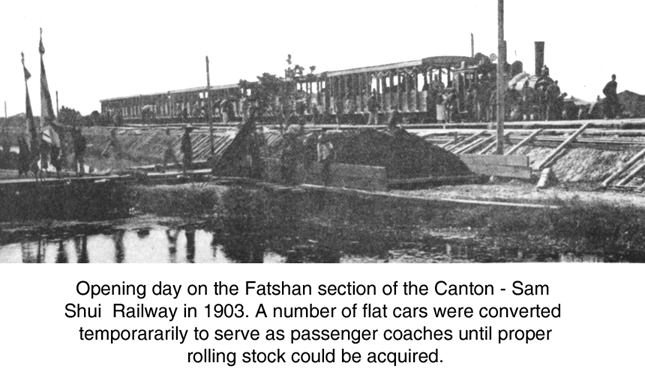 the opening of the Canton - Sam Shui Railway in 1903